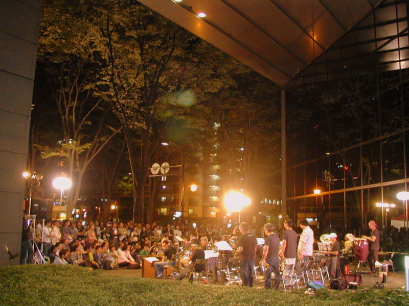 "Jozenji Streetjazz Festival in SENDAI". Kotodai-Koen Park